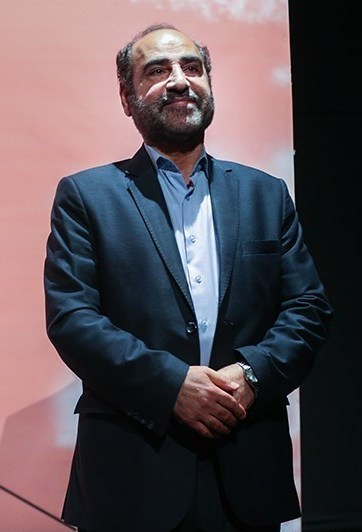 Mohammad Reza Sangariو writerو poet, Iranian